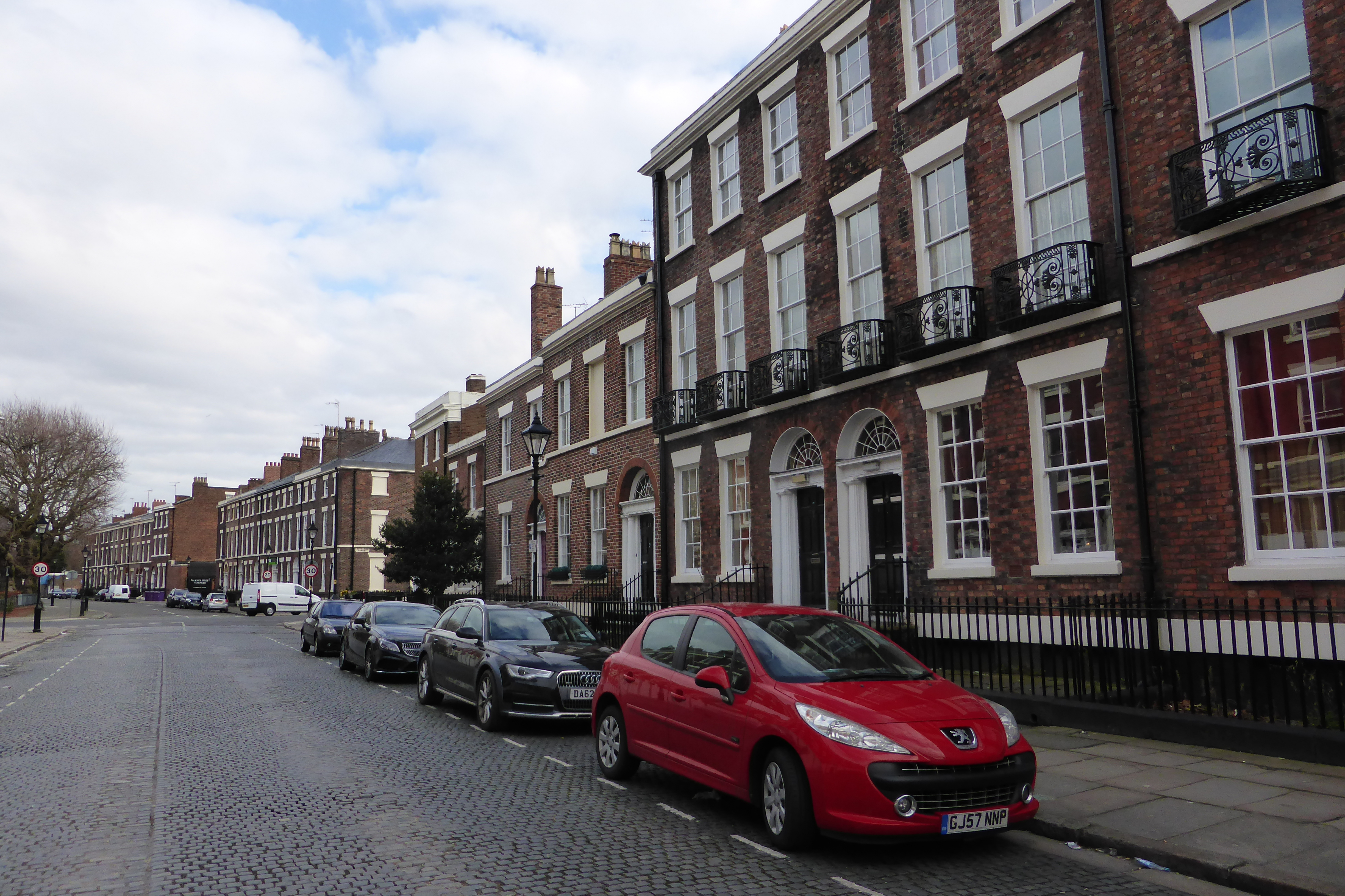 Falkner Street, Liverpool. The block of houses on the far left of this photo was used as a filming location for the Sherlock Holmes episode "The Six Napoleons" (1986) from the tv series The Return of Sherlock Holmes starring Jeremy Brett. Falkner Street also provided the backdrop for scenes of the British tv series Foyles War.